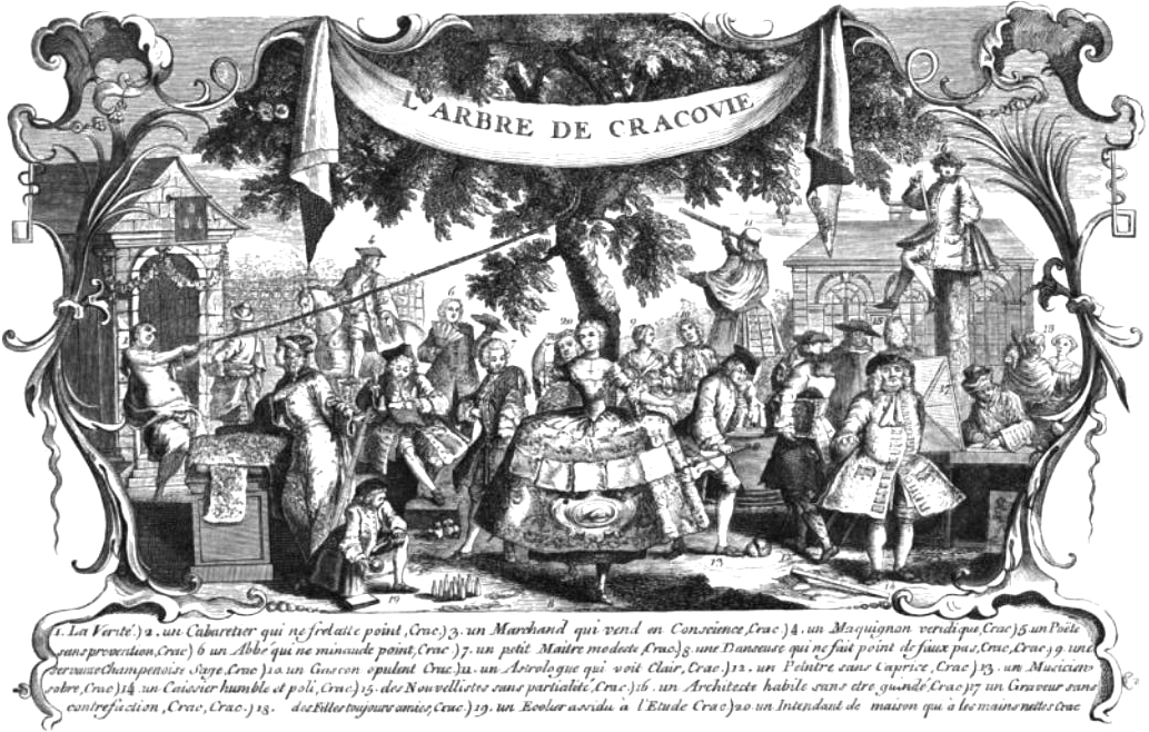 Satirical print showing one of several trees known as Arbre de Cracovie in 18th-century Paris, under which gossips would sit and exchange idle rumours known as craques, hence the metaphorical name "Cracovie".